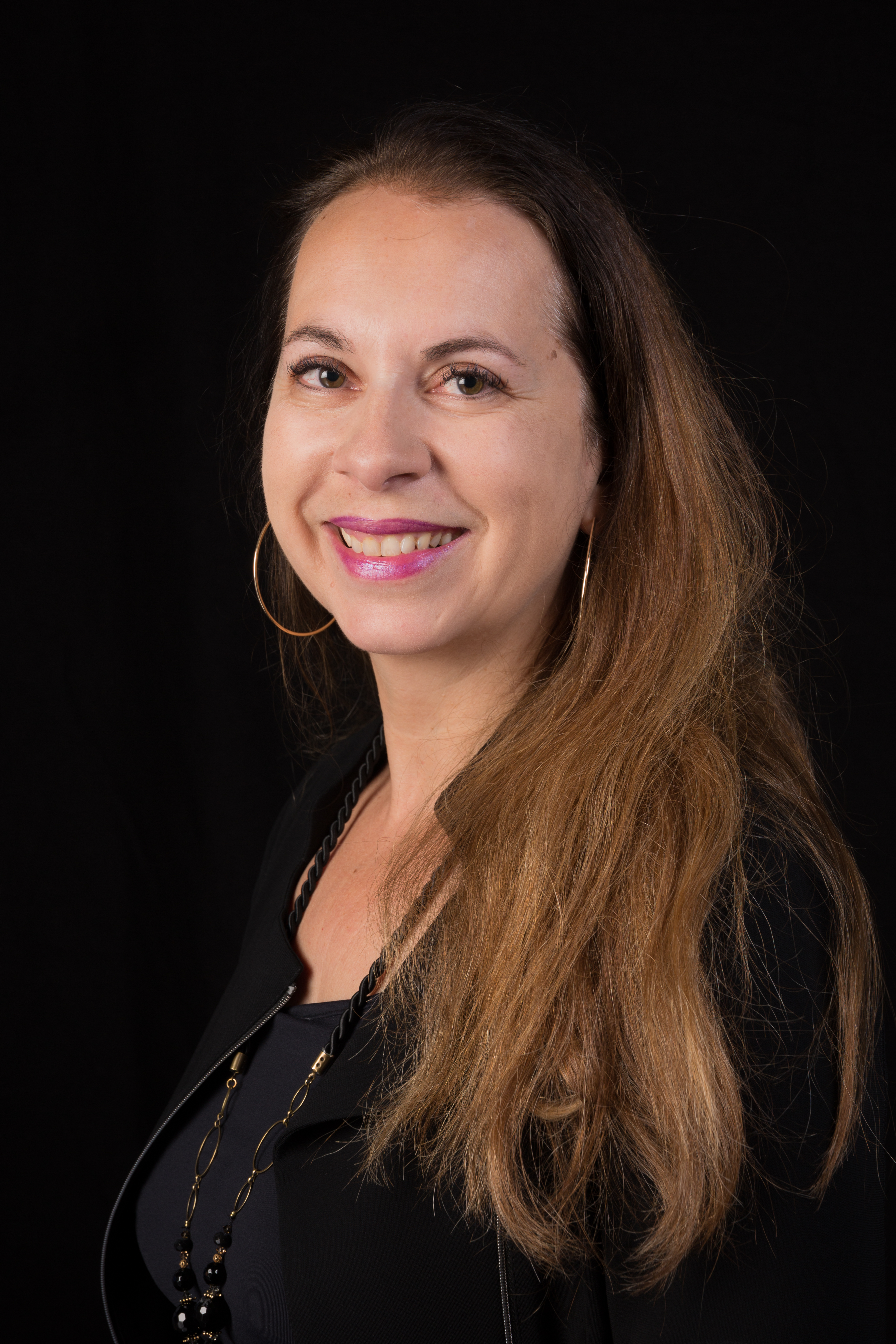 Isabella Straub at the Frankfurt Book Fair 2017